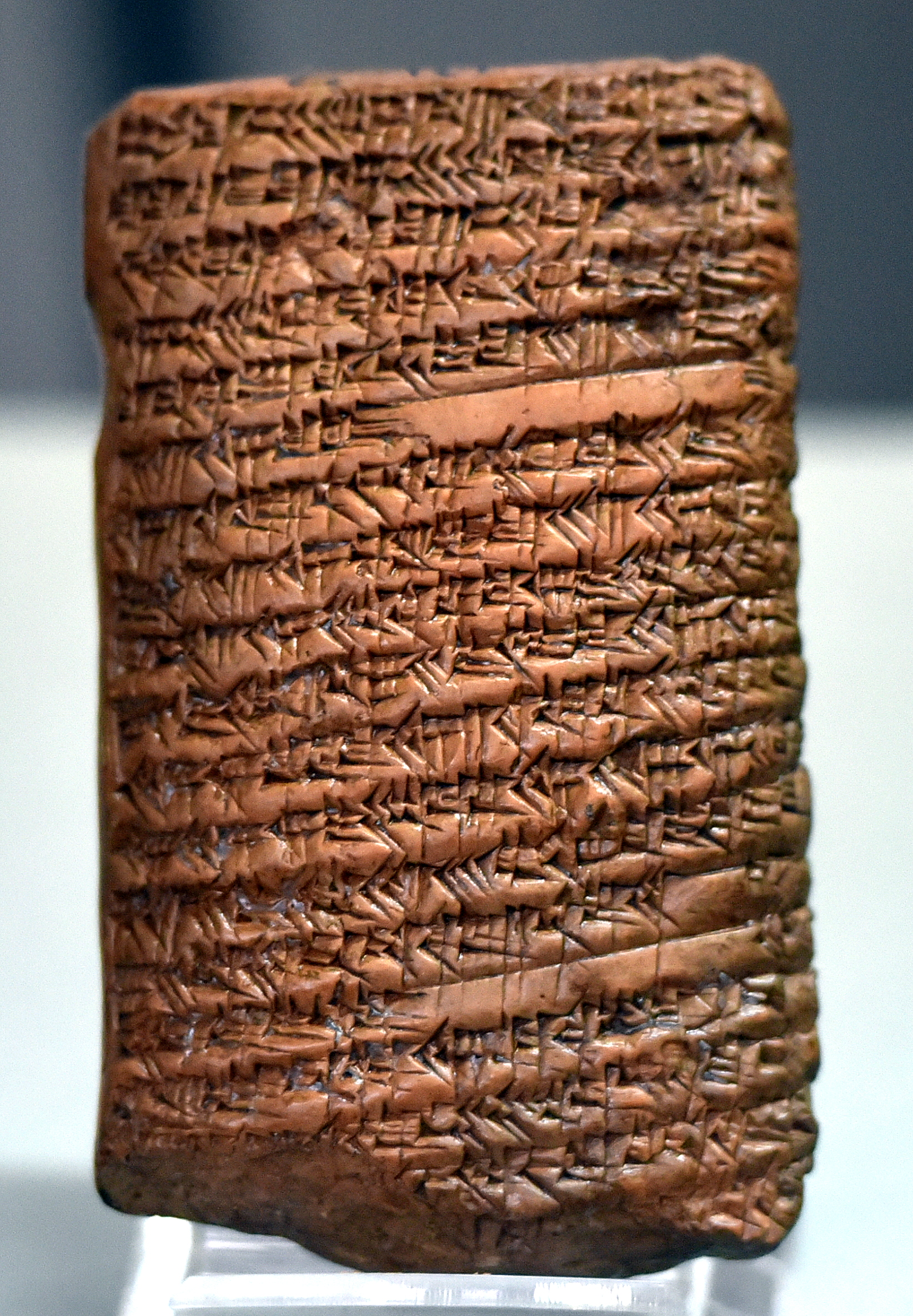 This clay tablet narrates a geometric-algebraic theory of how to make a solution for a mathematical problem. The conclusion applies a theory very similar to the Pythagorean theorem. From Tell Tell al-Dhabba'i, Iraq. Old-Babylonian period, 2003-1595 BCE. On display at the Iraq Museum in Baghdad, Republic of Iraq.